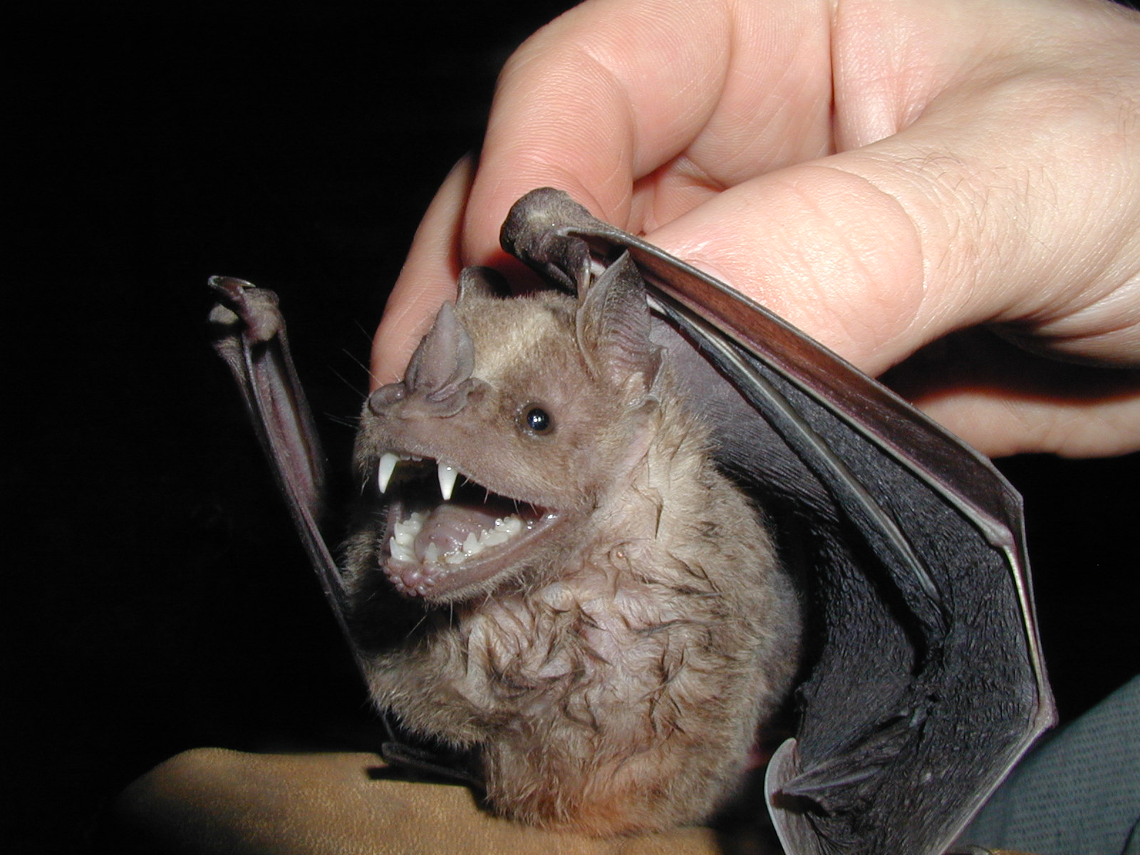 A fruit bat of the genus "Artibeus". Description on Flickr mistakes it as white-shouldered bat, which however looks very different.